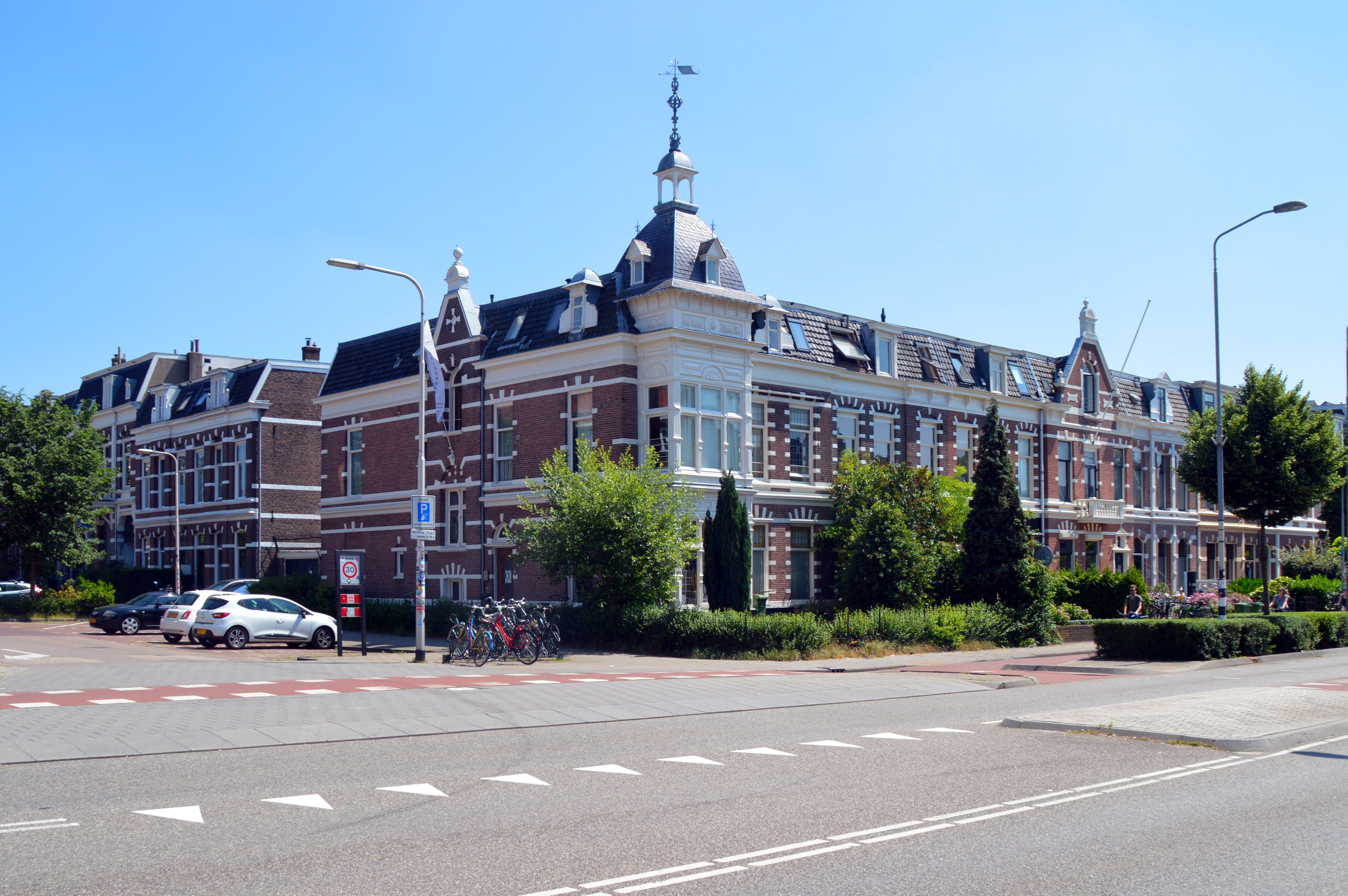 Corner Sint Annastraat en Fransestraat Galgenveld Nijmegen